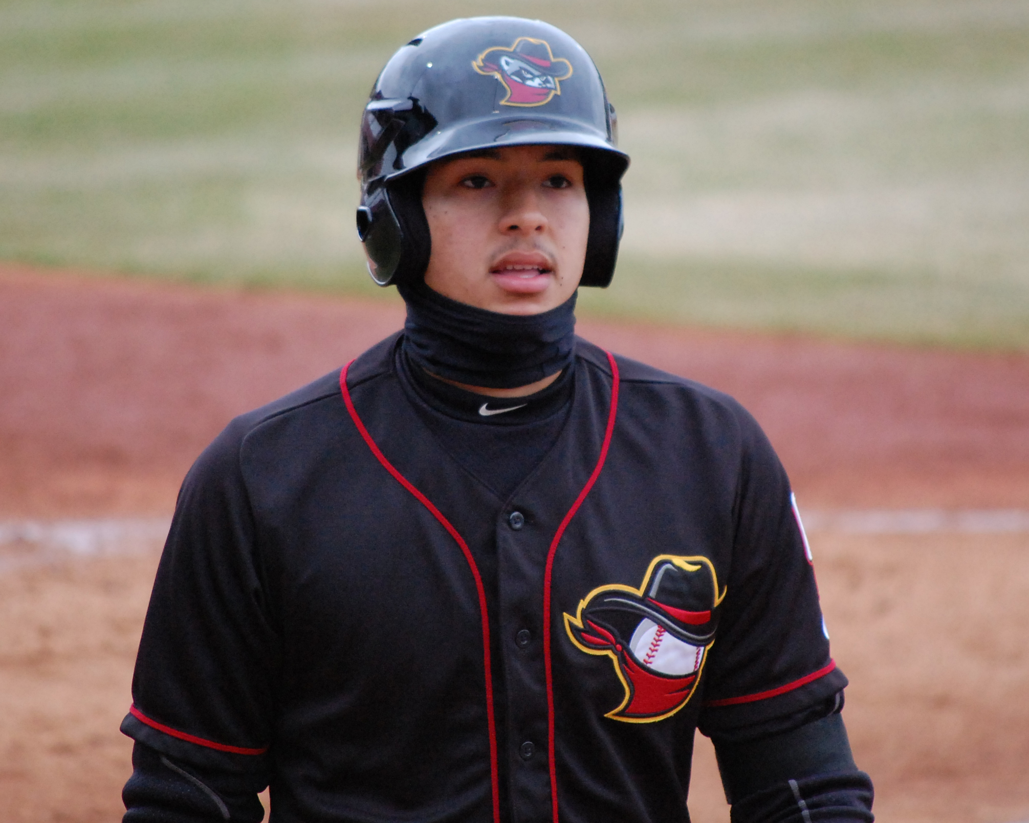 Carlos Correa playing for the Quad City River Bandits at Fox Cities Stadium in Appleton, Wisconsin.